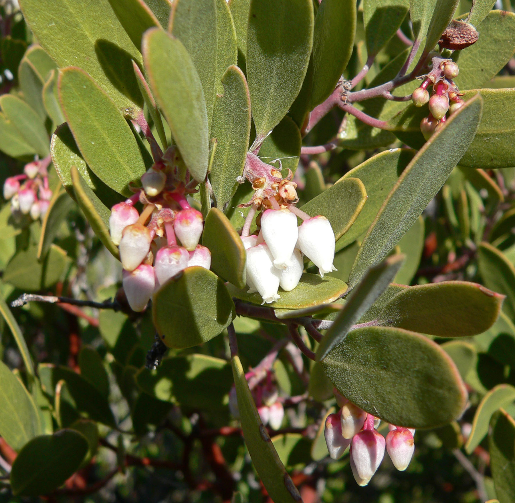 Arctostaphylos pungens in Red Rock Canyon, Spring Mountains, southern Nevada